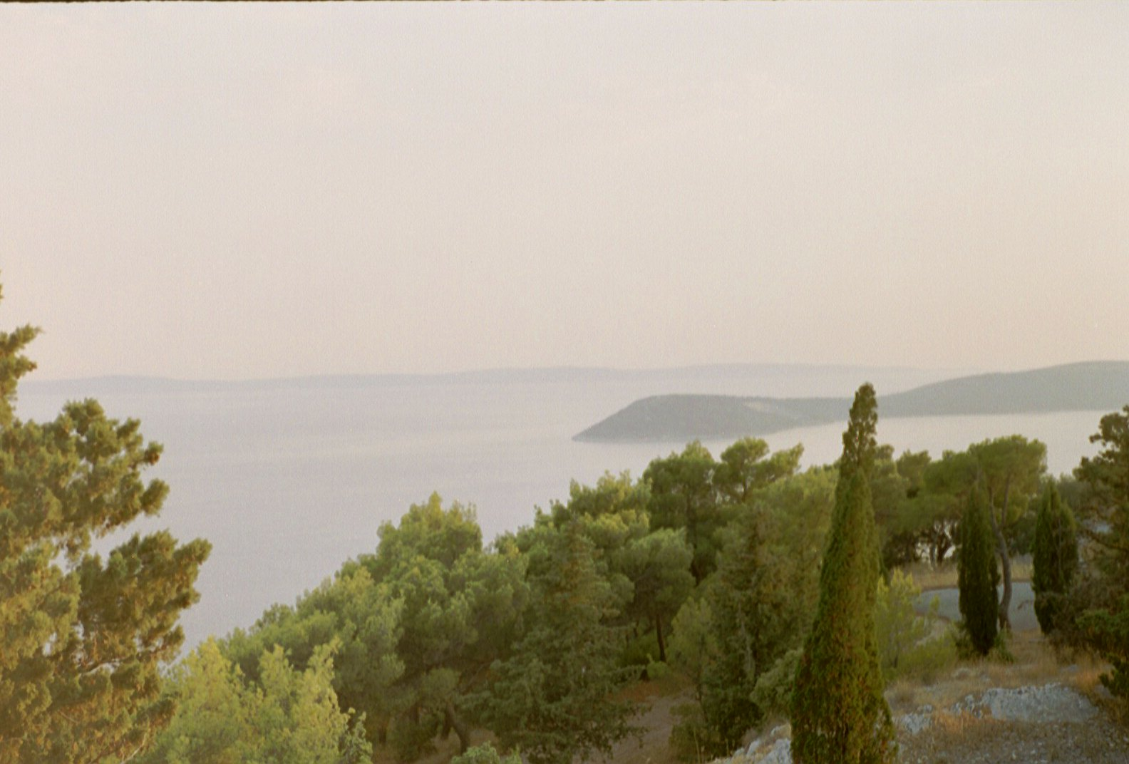 Adriatic Sea from the Marjan. Photo by Asteriontalk